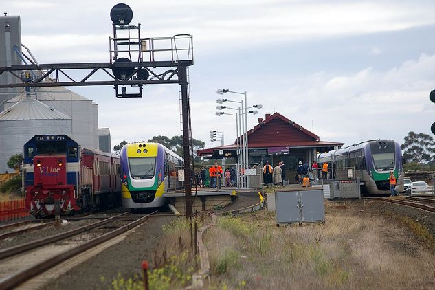 Lara Station with V/Locity locomotives on each platform and a P-Class locomotive with N-Class carriages on left track.